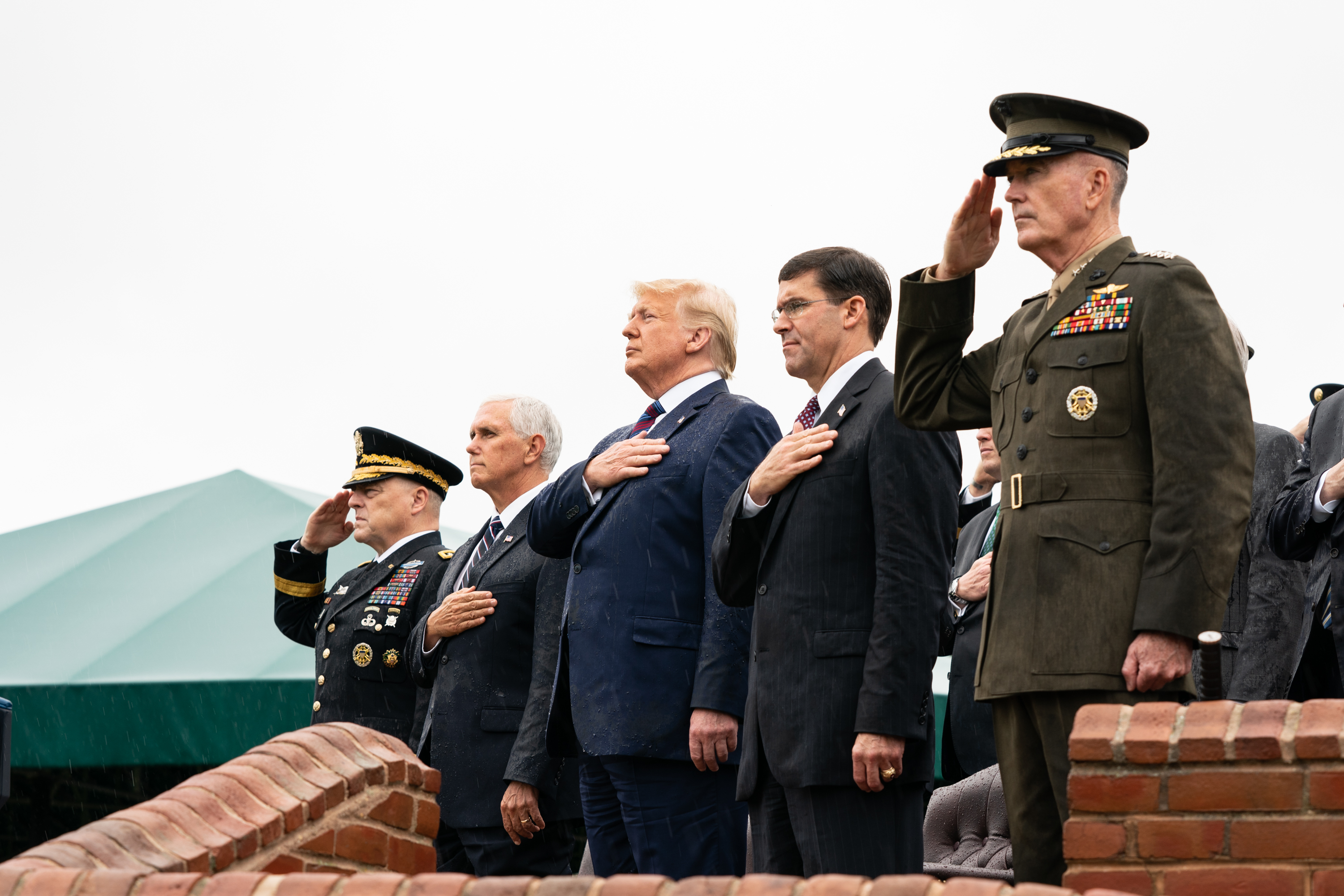 Army Gen. Mark A. Milley, incoming Chairman of the Joint Chiefs of Staff; Vice President Mike Pence; President Donald J. Trump; Secretary of Defense Dr. Mark T. Esper; and Marine Corps Gen. Joe Dunford, outgoing Chairman, render honors during an Armed Forces Welcome Ceremony as Army Gen. Mark A. Milley becomes the 20th Chairman of the Joint Chiefs of Staff, at Joint Base Myer – Henderson Hall, Va., Sept. 30, 2019. Milley takes the reigns from Marine Corps Gen. Joe Dunford, the 19th Chairman of the Joint Chiefs of Staff. (DoD Photo by U.S. Army Sgt. James K. McCann)